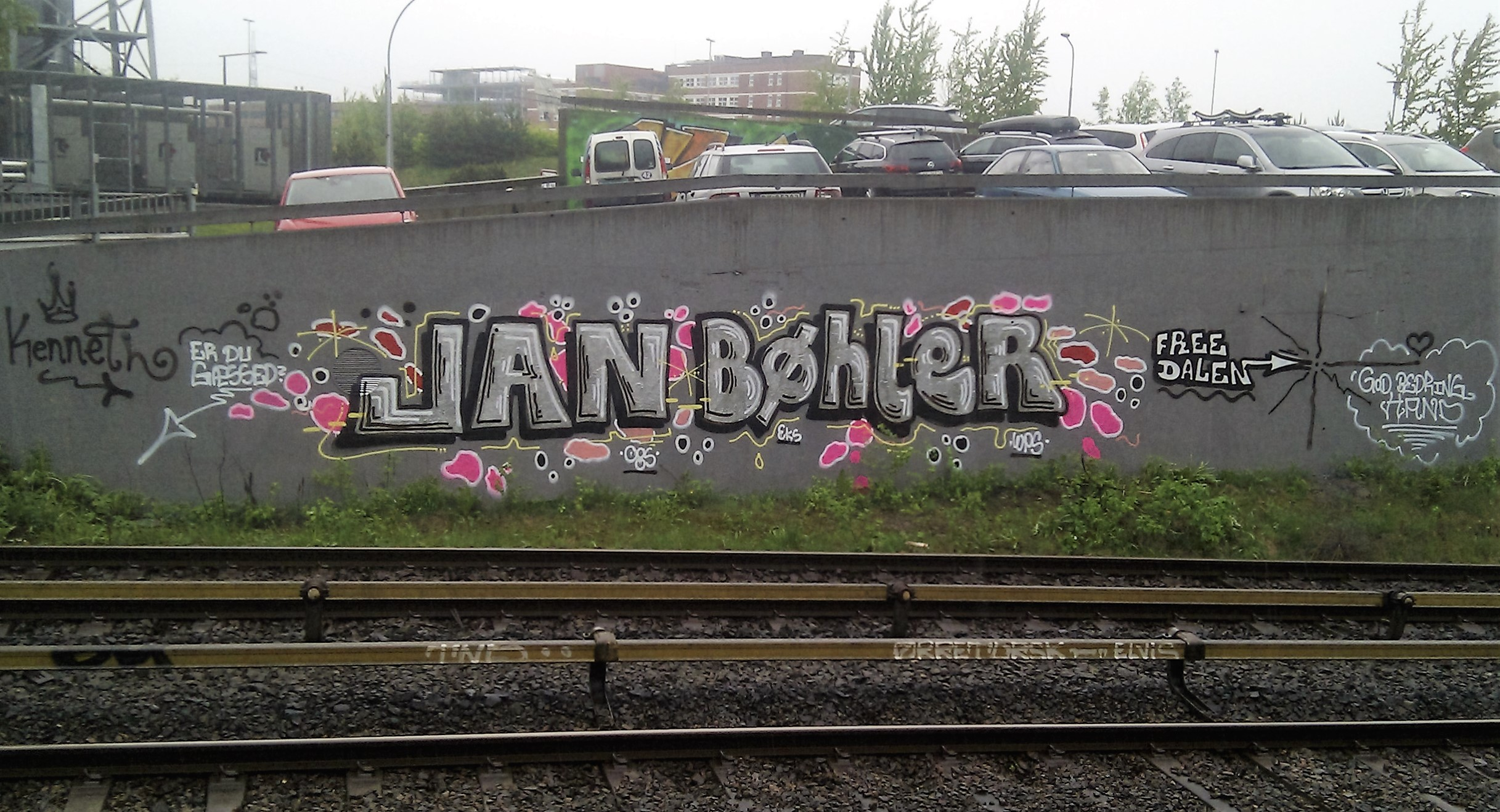 Graffiti along the subway tracks between Økern and Risløkka, at the entrance to Groruddalen, Oslo.